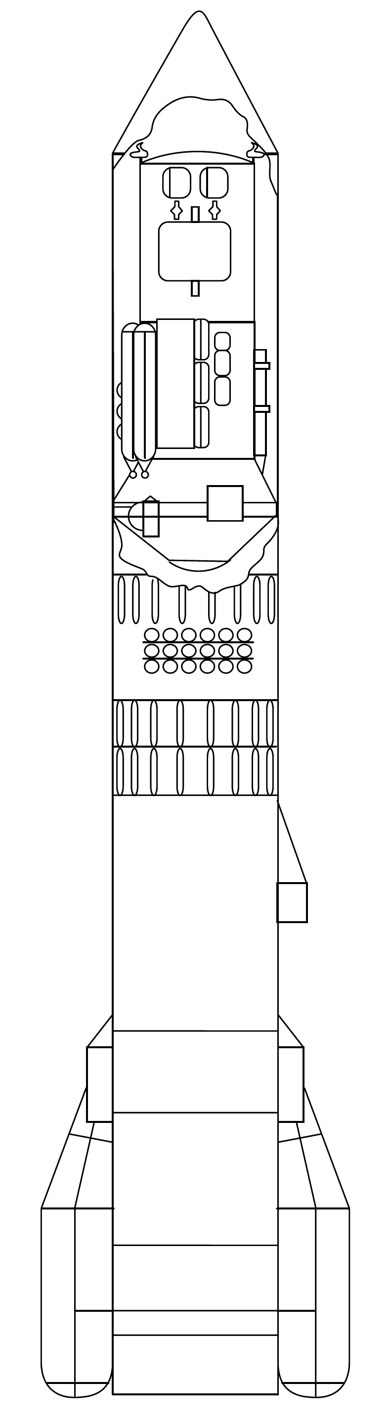 Polyus cutaway. Displays the FGB-based service/propulsion module. Note that, like other FGBbased vehicles, it launched aft end up. This places Polyus’ front end at the bottom. The streamlined projections on Polyus’ sides were dispensers for experimental tracking targets.